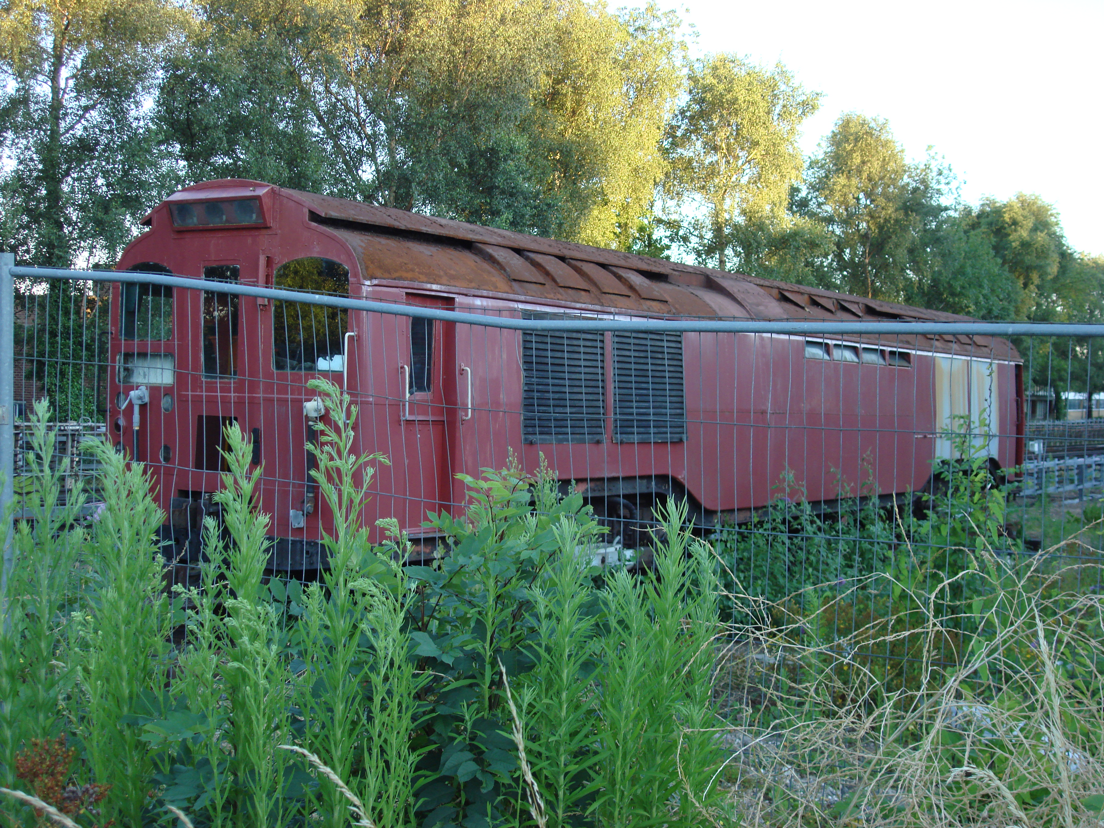 London Underground electric locomotive L11, converted from two Standard tube stock driving motor cars, preserved on display on the approach to Epping tube station. Brought by road to this privately owned siding. This image was originally uploaded by User:Oxyman as File:Battery_electric_locomotive_LU.jpg. However this is NOT a battery locomotive.